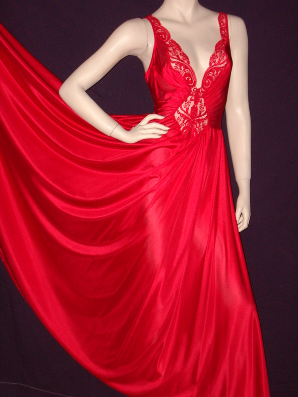 Nightgown